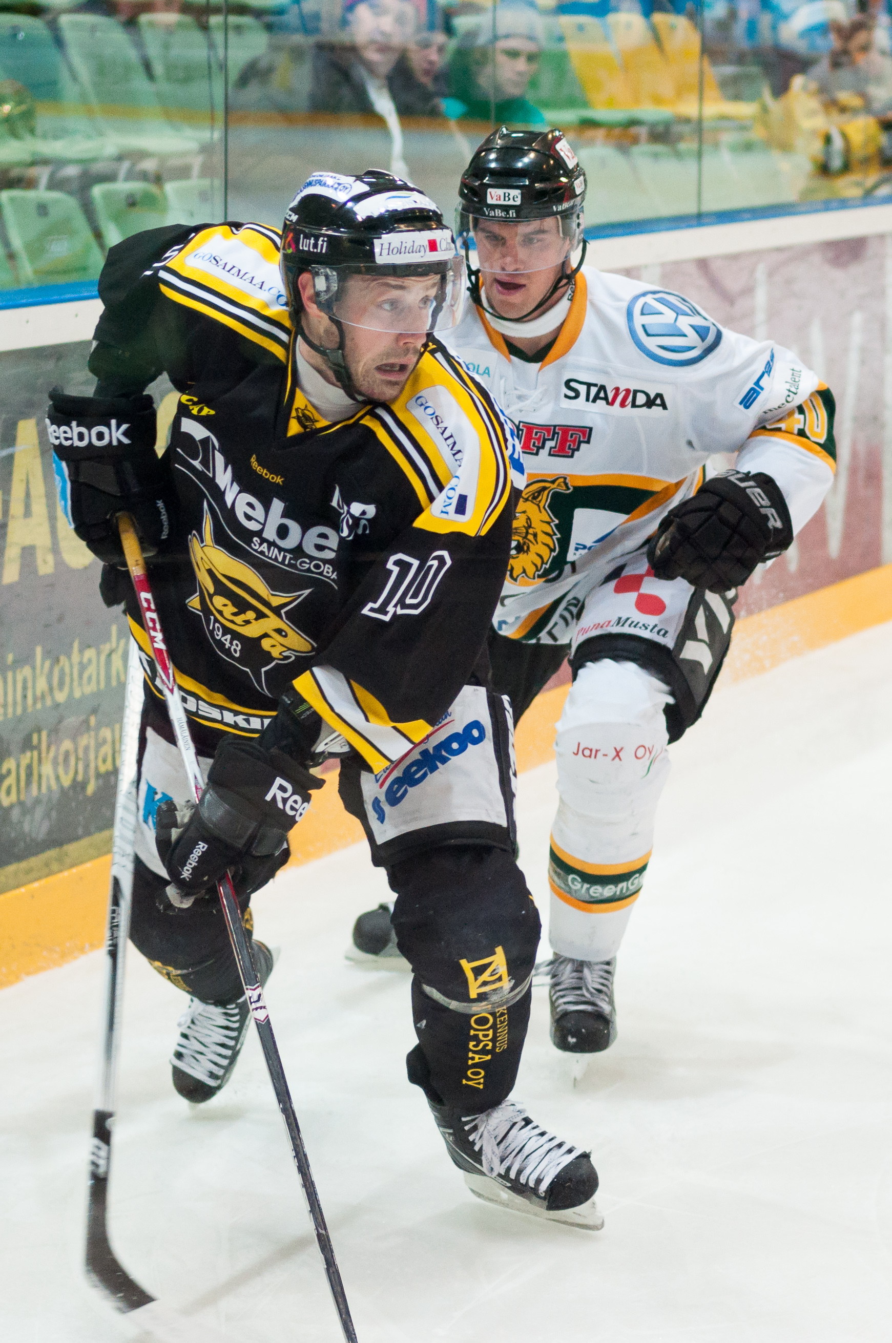 Finnish ice hockey center Ville Hämäläinen of SaiPa Lappeenranta and Canadian left winger Daniel Paille of Tampereen Ilves in Lappeenranta, Finland.